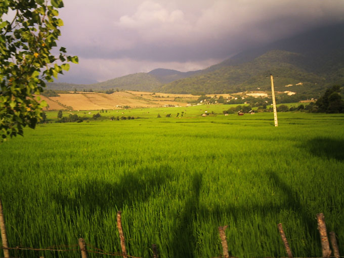 mazandaran